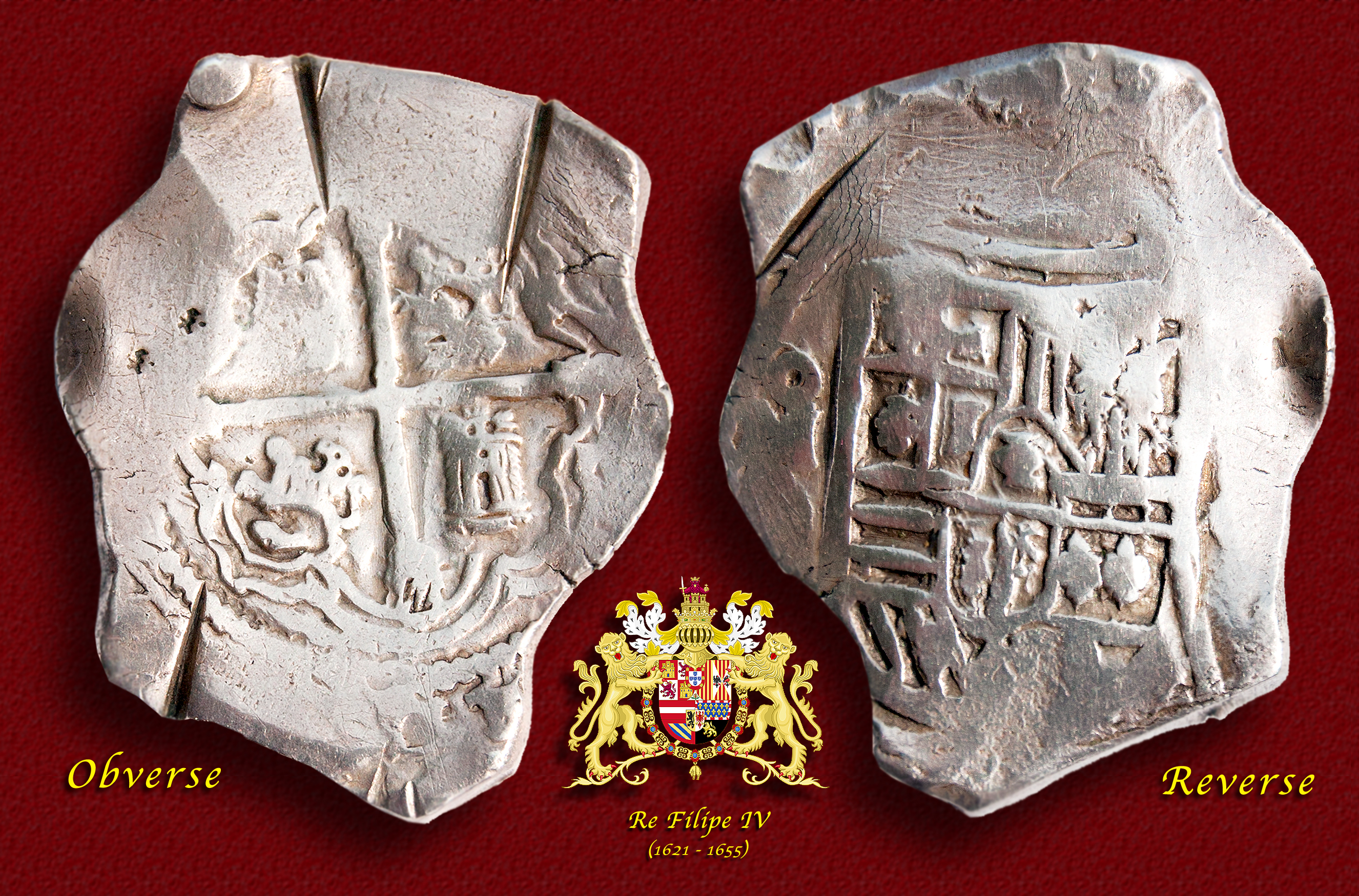 thumb|right|100px|Mint mark17th Century "Spanish Treasure" "Shield Type" Silver 8-Reales (Peso) Cob ("Macuquina") Coin marked with Spanish Royal Coat of Arms of Filipe IV (1621-1665) (illustrated) Minted in México City (Mint mark: "M" with small "o" above located to left of the shield of Filipe IV on reverse). 43mm x 37mm (irregular), 26.658 gm (0.941 oz) [Note: The legal weight for this denomination was 27.468 gm (0.970 oz); this coin is 0.810 gm (0.029 oz) short of that.] Fineness: 930.5.